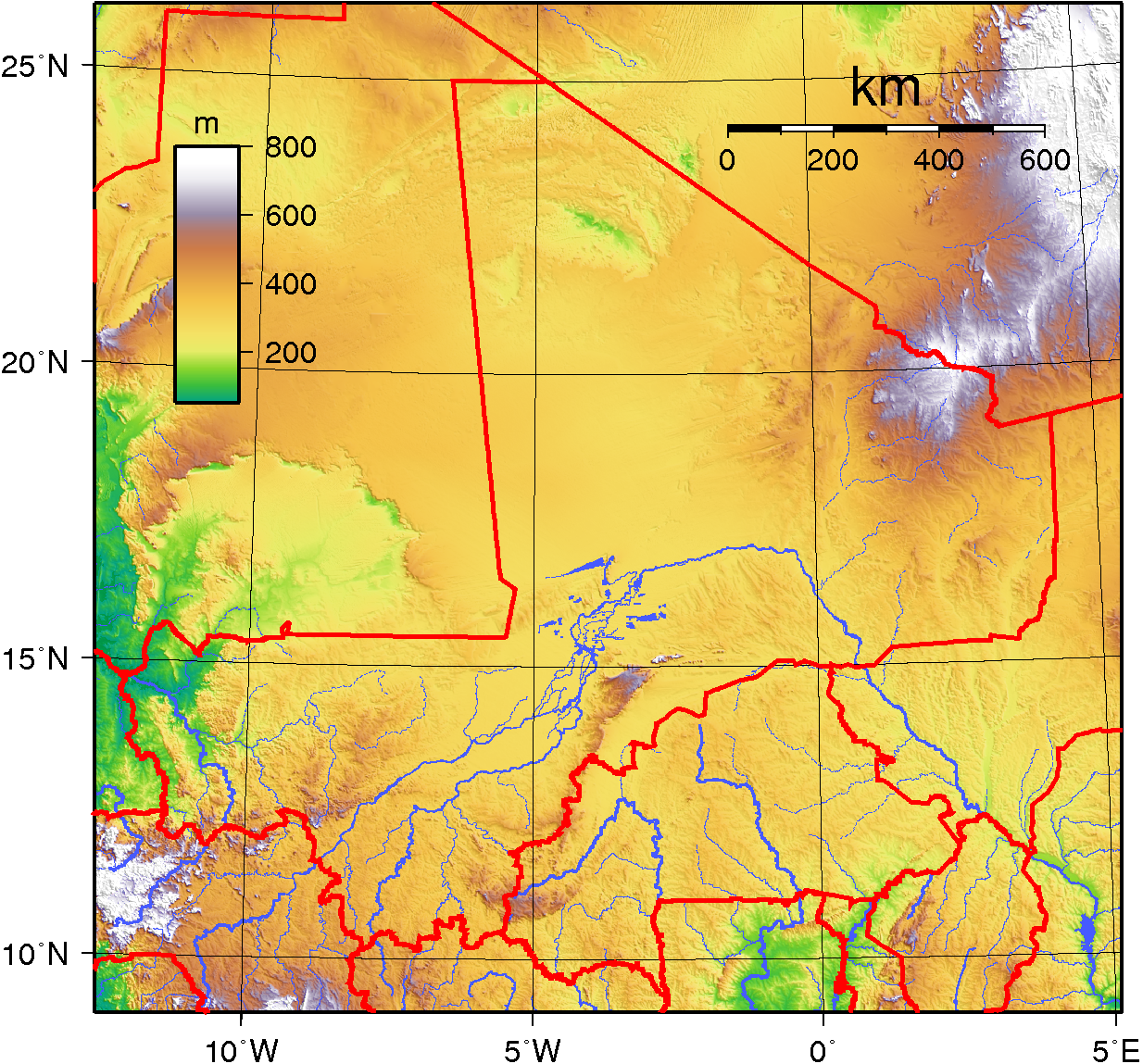 Topographic map of Mali. Created with GMT from public domain GLOBE data.